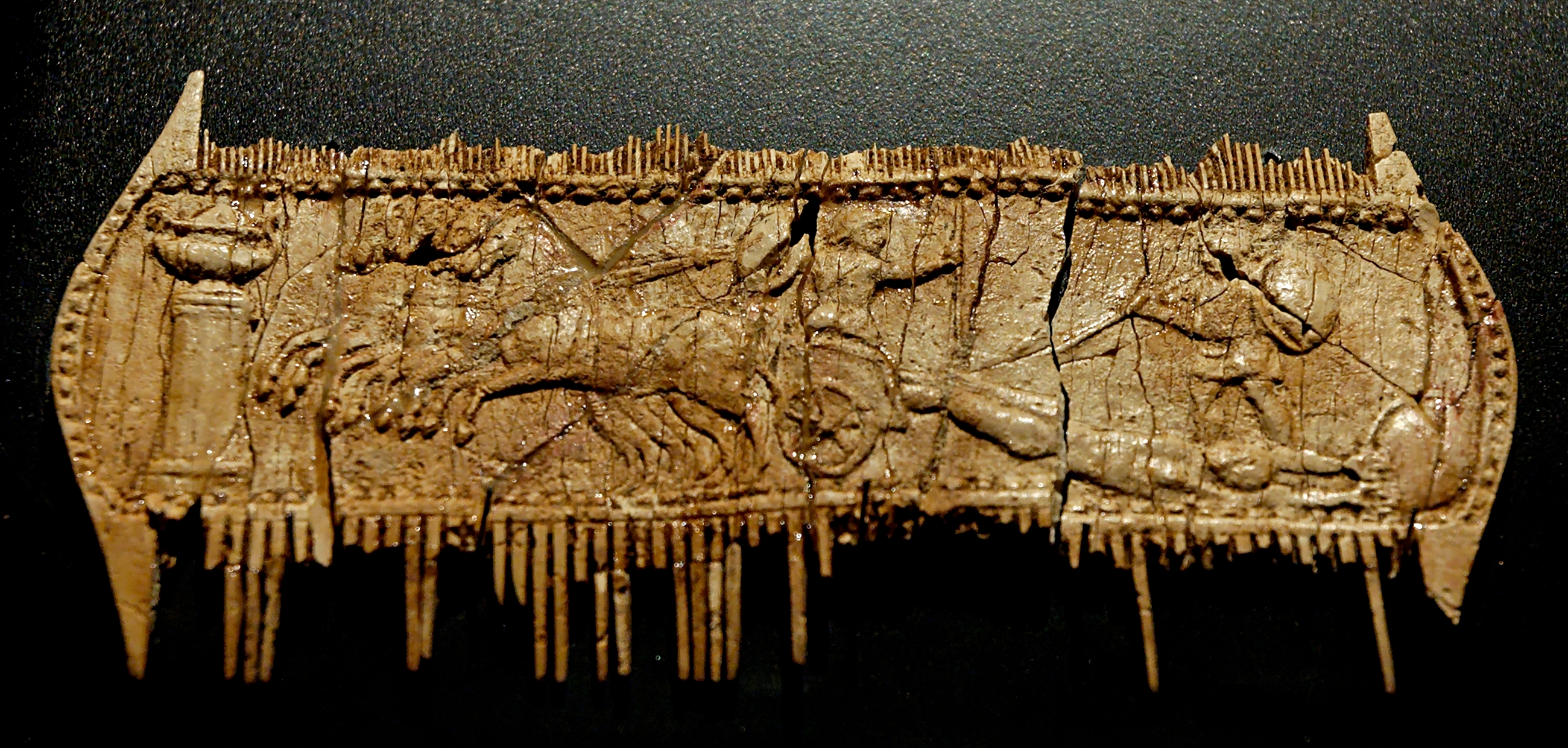 Achilles dragging Hector's corpse through the Greek camp. Bone comb from tomb 5, via Frascati in Oria.